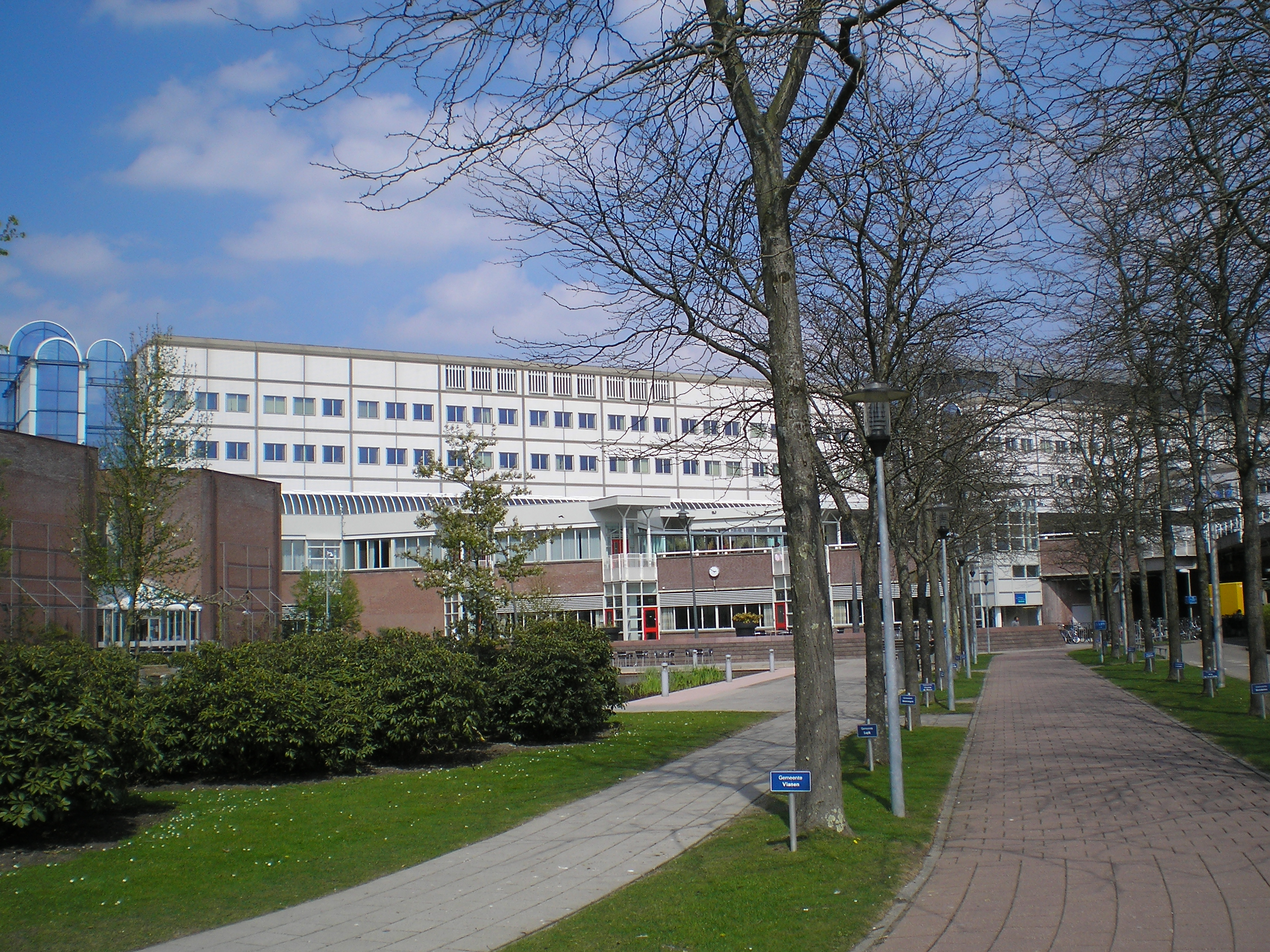 UMC on Heidelberglaan 100 in The Uithof in Utrecht in the Netherlands